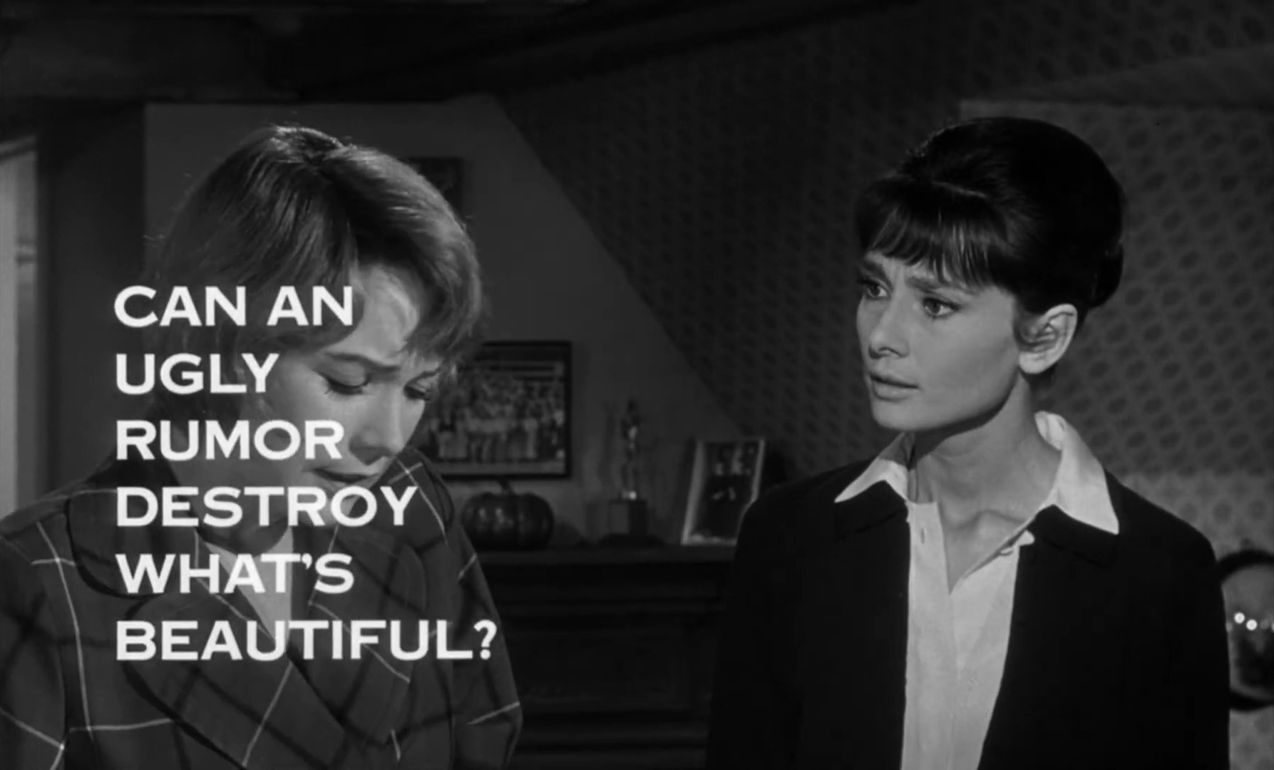 Original trailer for The Children's Hour (1961).